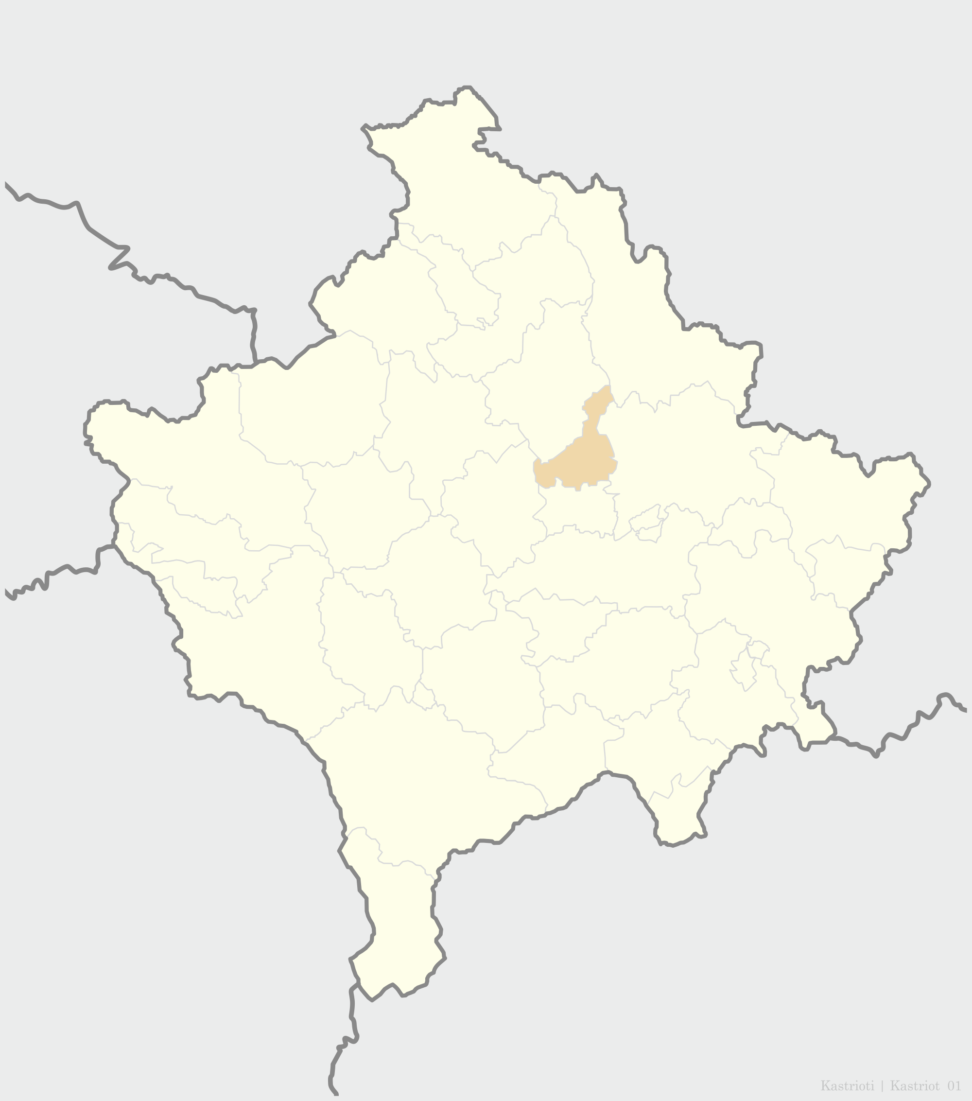 Municipality of Obilic map